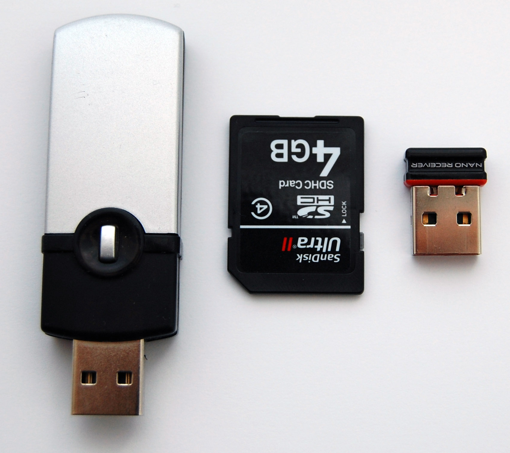 A comparison of the Logitech VX Nano's 2.4Ghx RF receiver against an SD-Card and a generic wireless desktop receiver